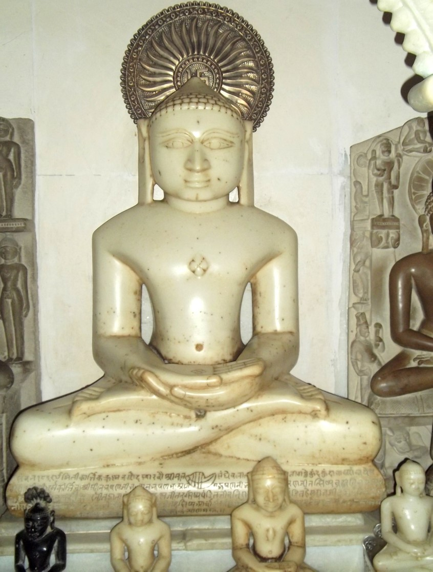 Image of Bhagwan Neminath Ji (Bateshwar, Uttar Pradesh)